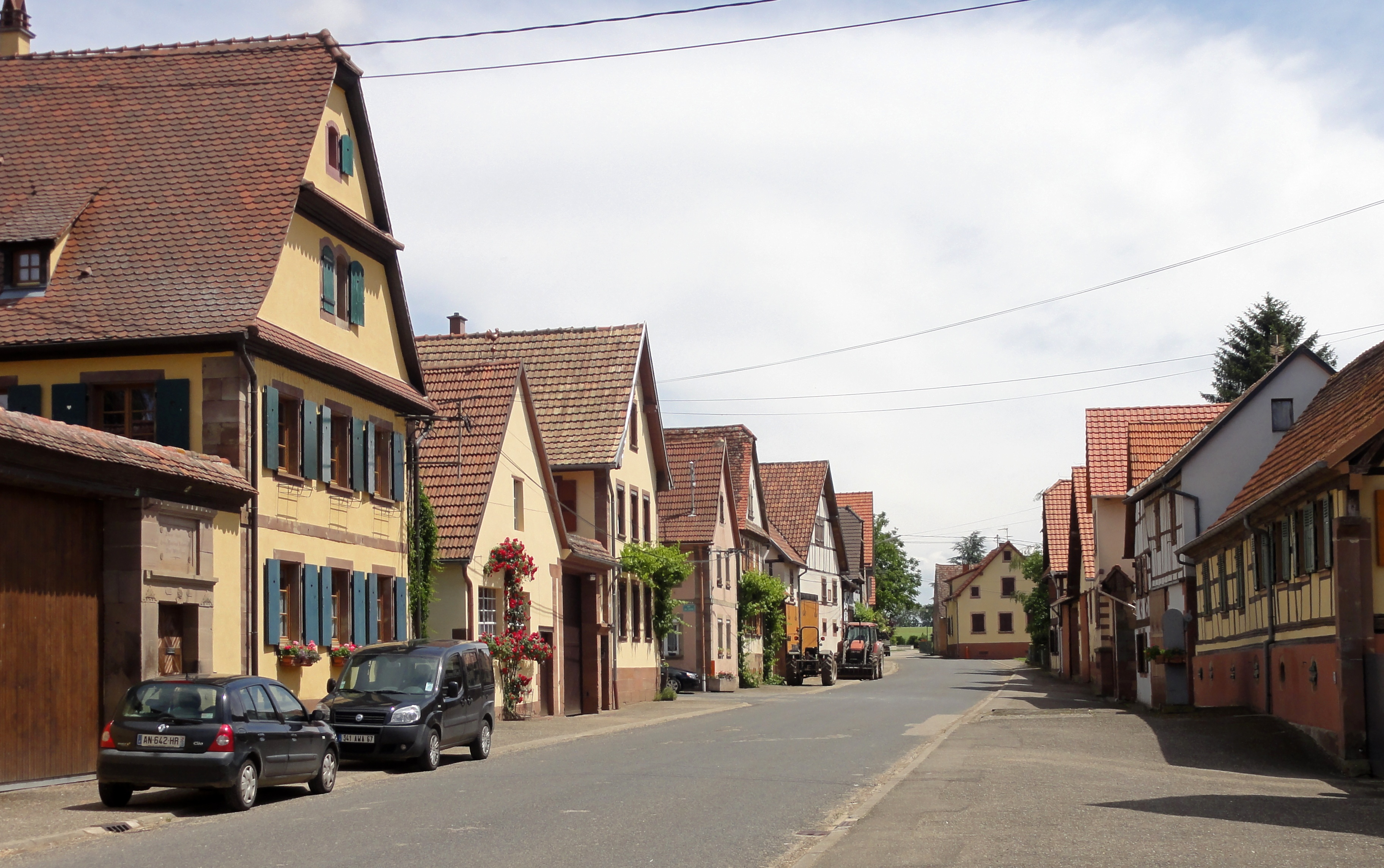 Alsace, Bas-Rhin, Wickersheim, Rue Principale.